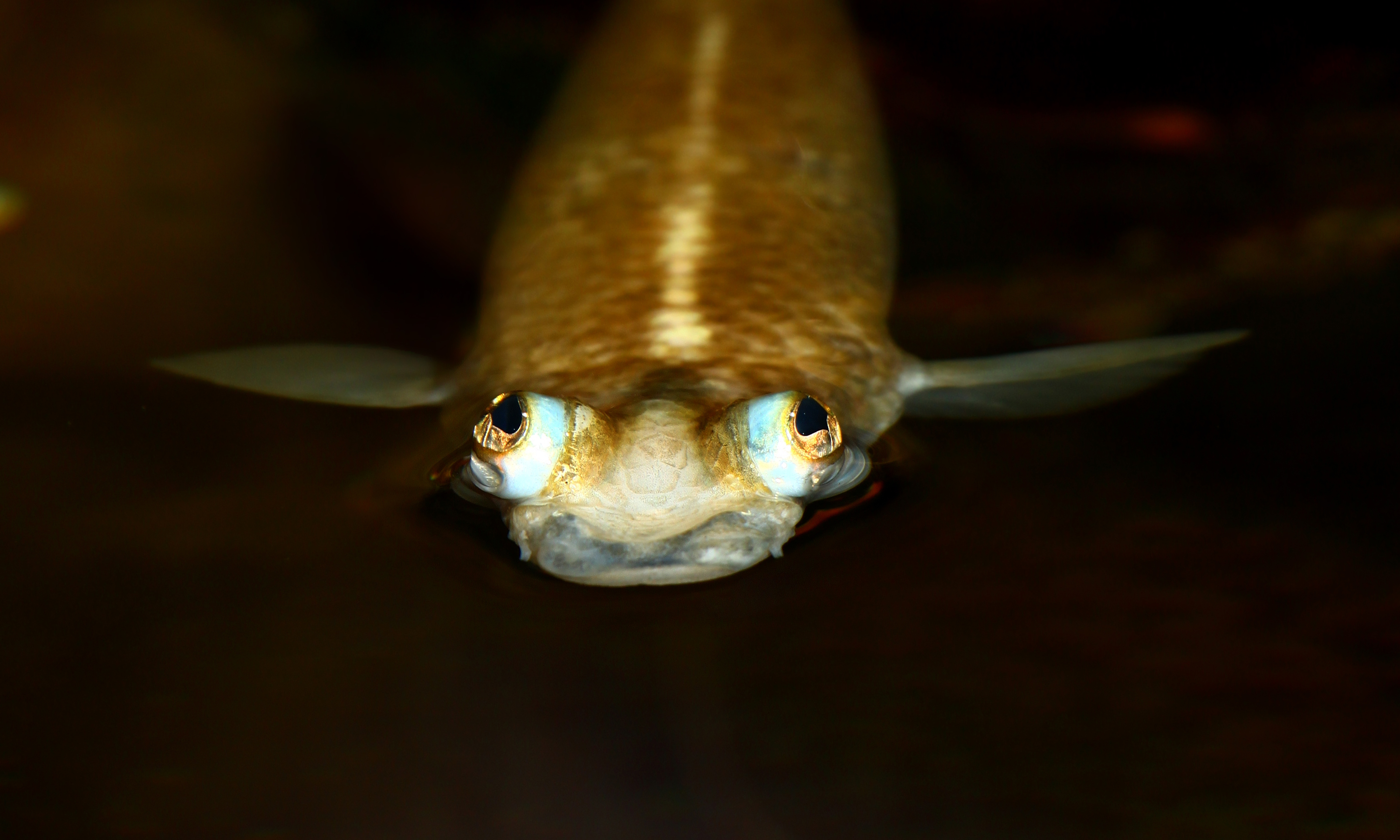 Four-eyed Fish; Wilhelma Zoo; Stuttgart, Germany.